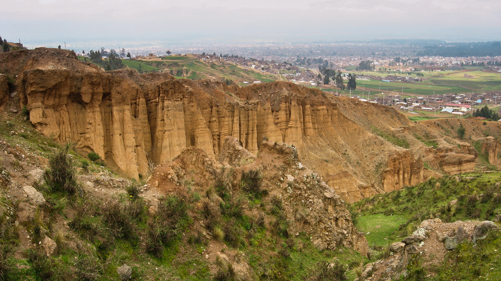 Geological formations of Torre Torre, near Huancayo, Peru.